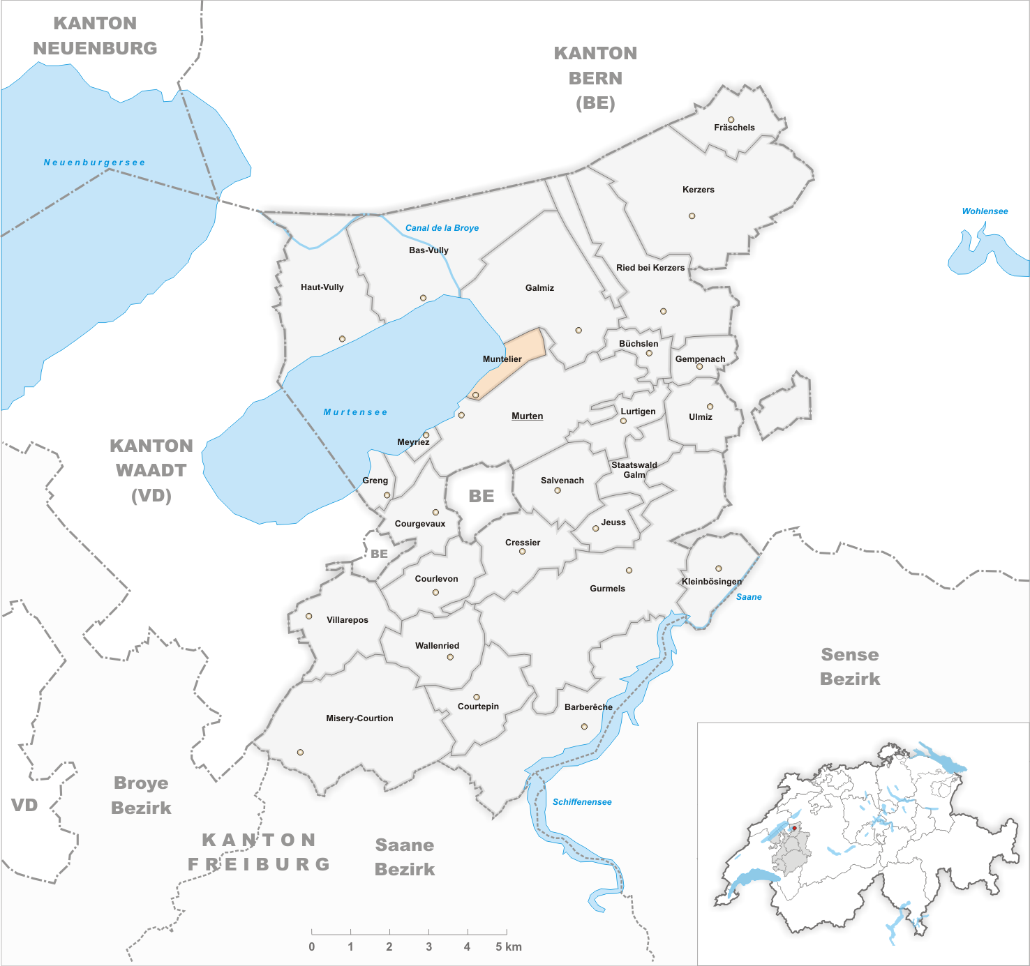 Municipality Muntelier